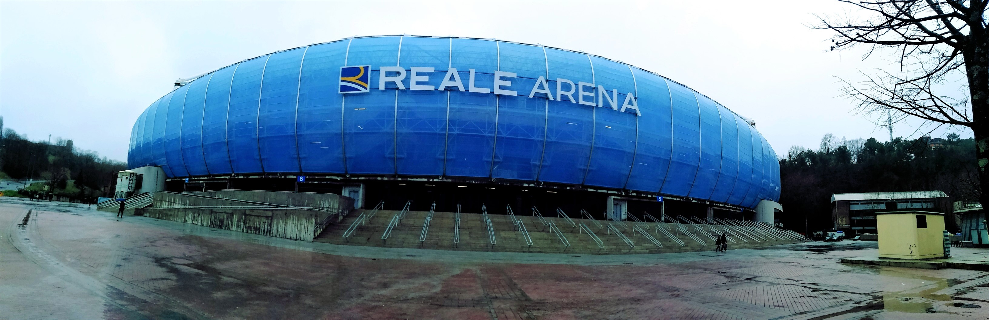 Anoeta stadium, Donostia-San Sebastian, Gipuzkoa, Basque Country